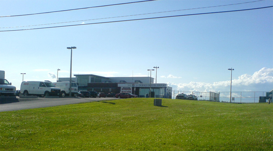 Norman Rogers Airport terminal building